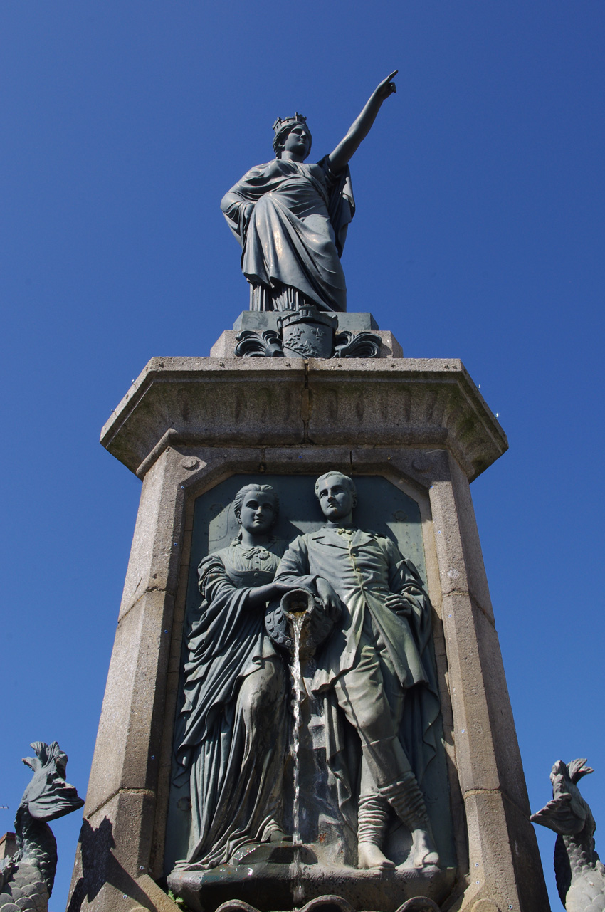 The Lapayrière fountain, in Le Dorat (Haute Vienne, France), by Pierre-Amédée Brouillet, 1872. The statue symbolising the city of Le Dorat is indicating the source of the water, the spring of Les Pierres Blanches.